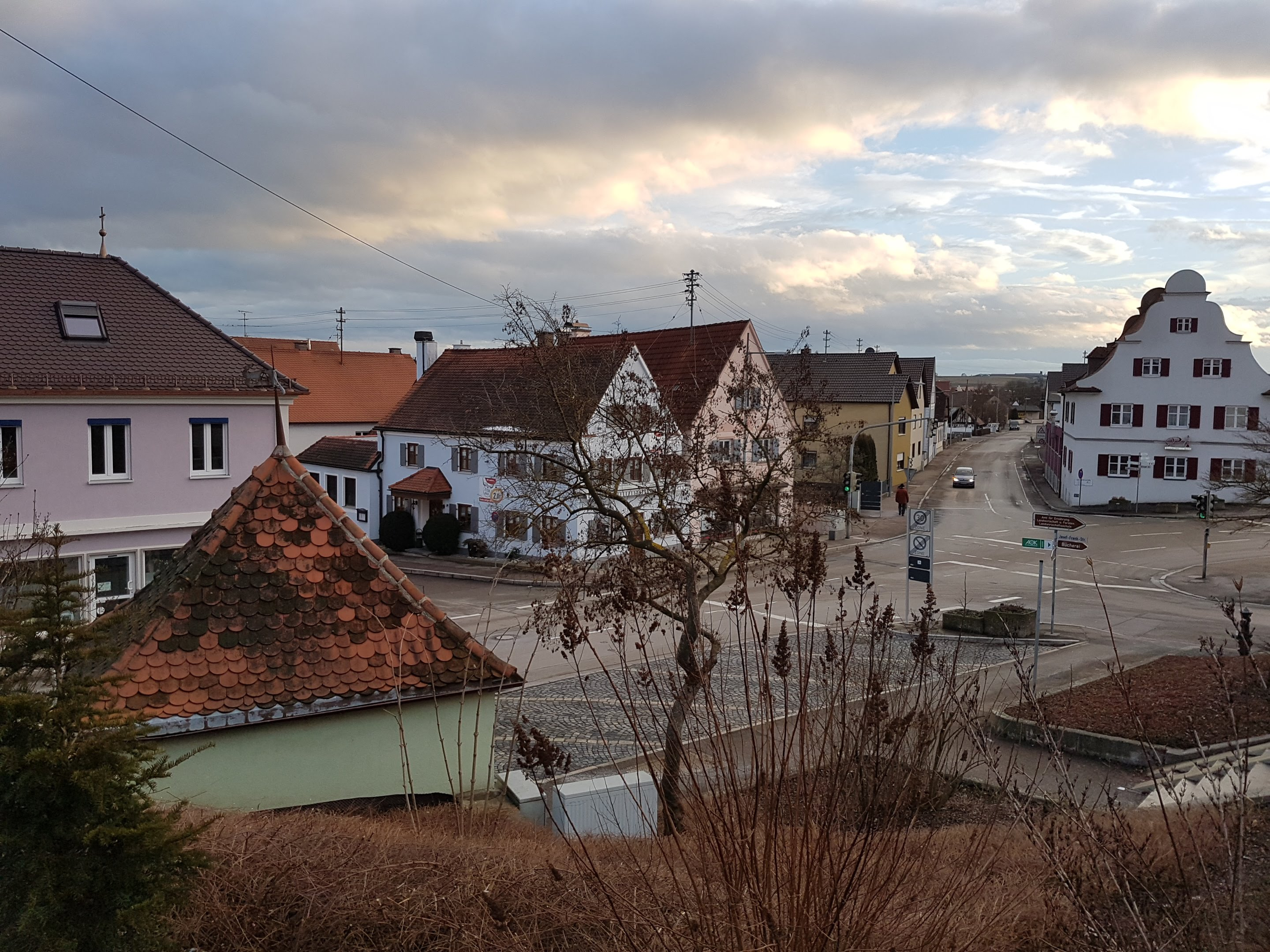 City of Wertingen